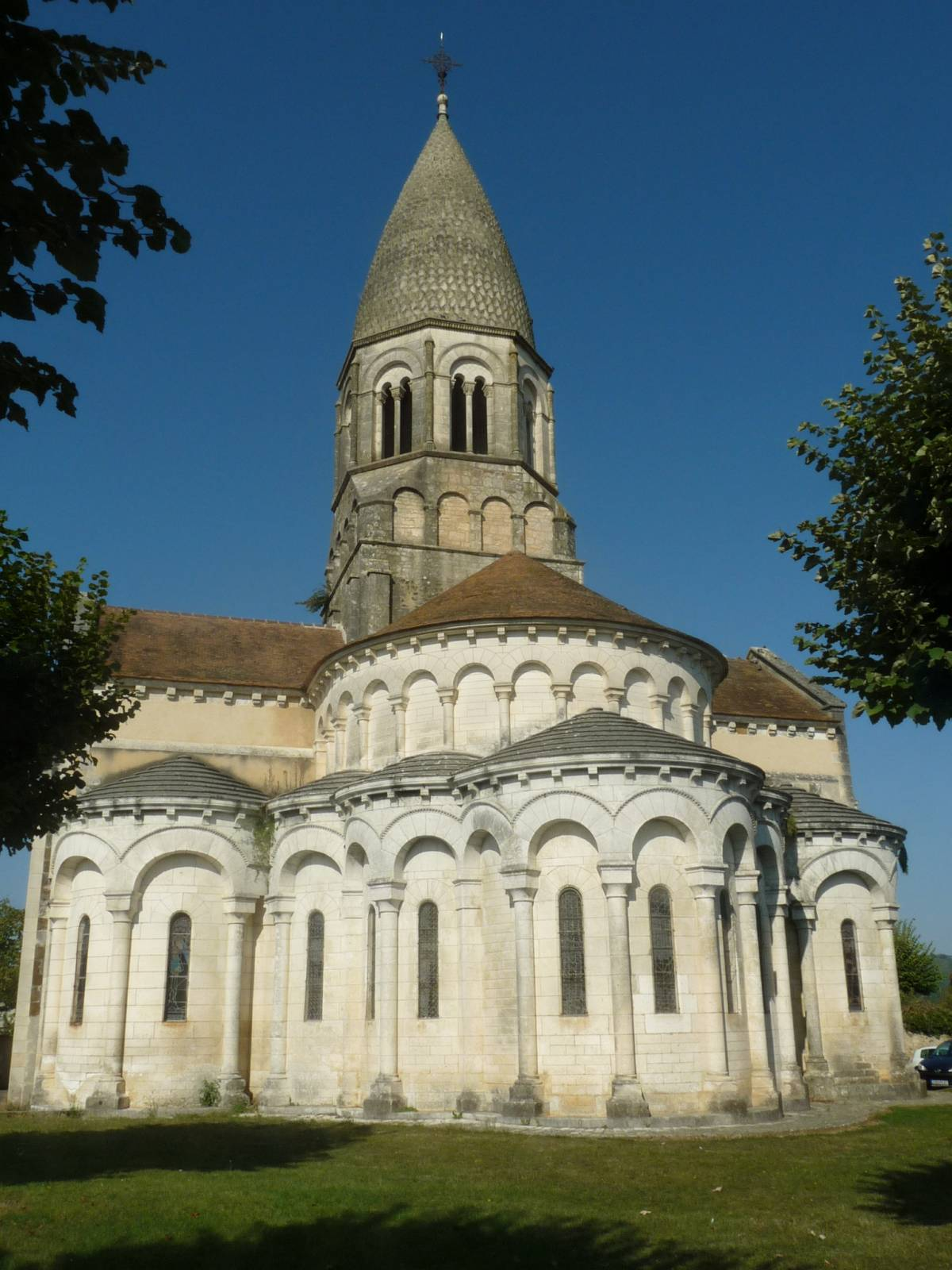 church of Montbron, Charente, SW France